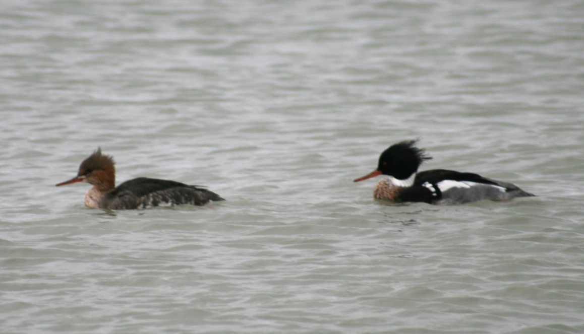 Couple of Mergus serrator (Texel, NL)